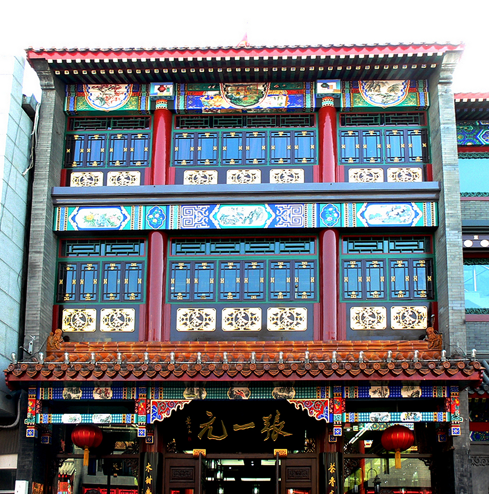 Zhang Yiyuan Tea Co at Qian Men Street, Beijing